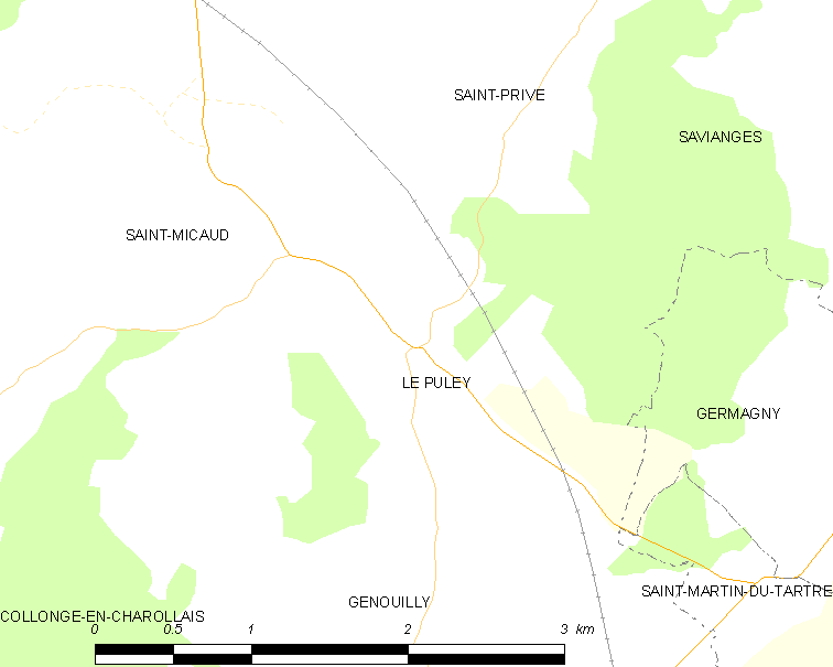 Map of French municipality